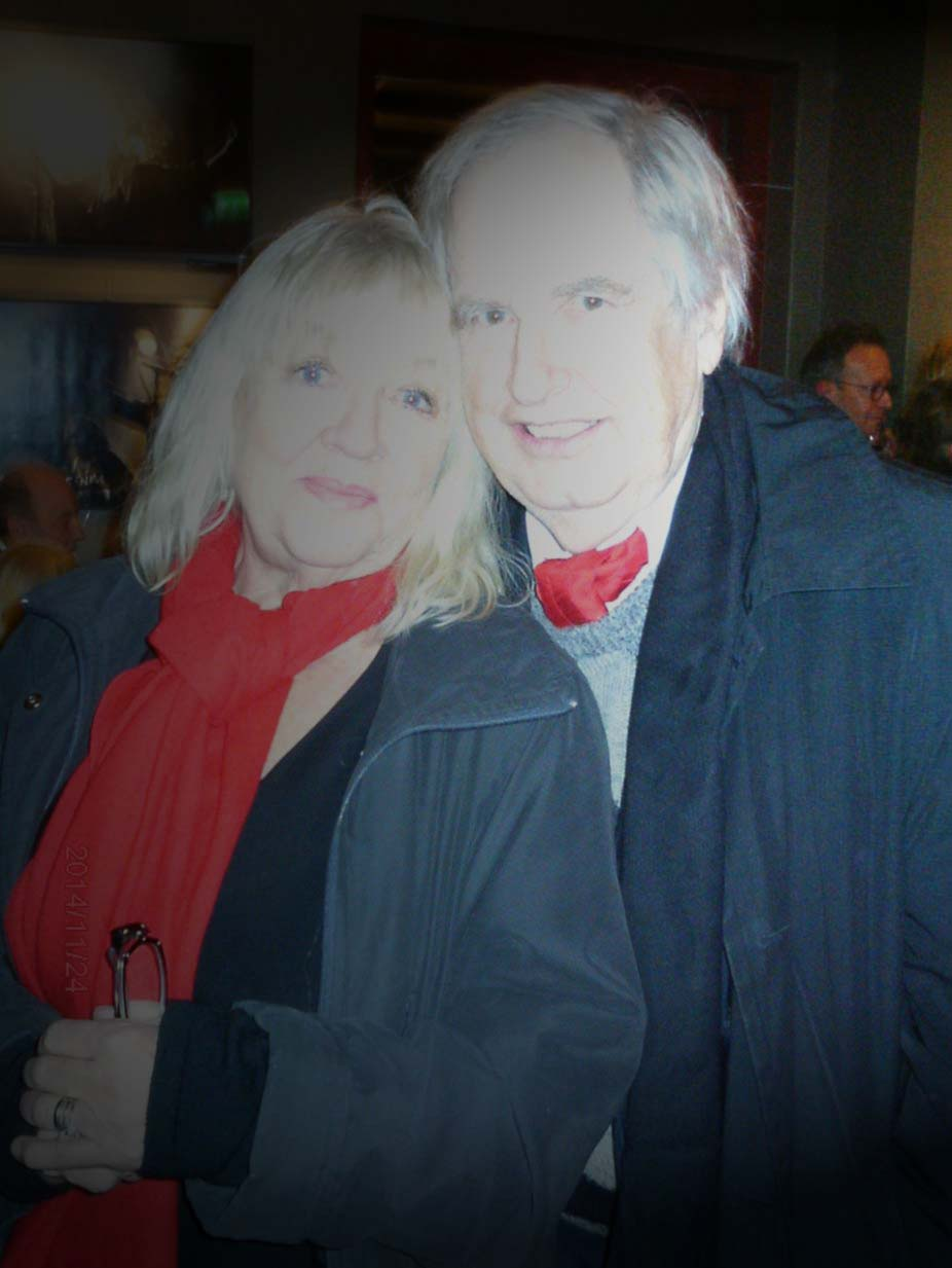 Monica and Carl-Axel Dominique at the Kim Anderzon funeral receptionPlace: Etablissemanget, Södra teatern, Stockholm, Sweden